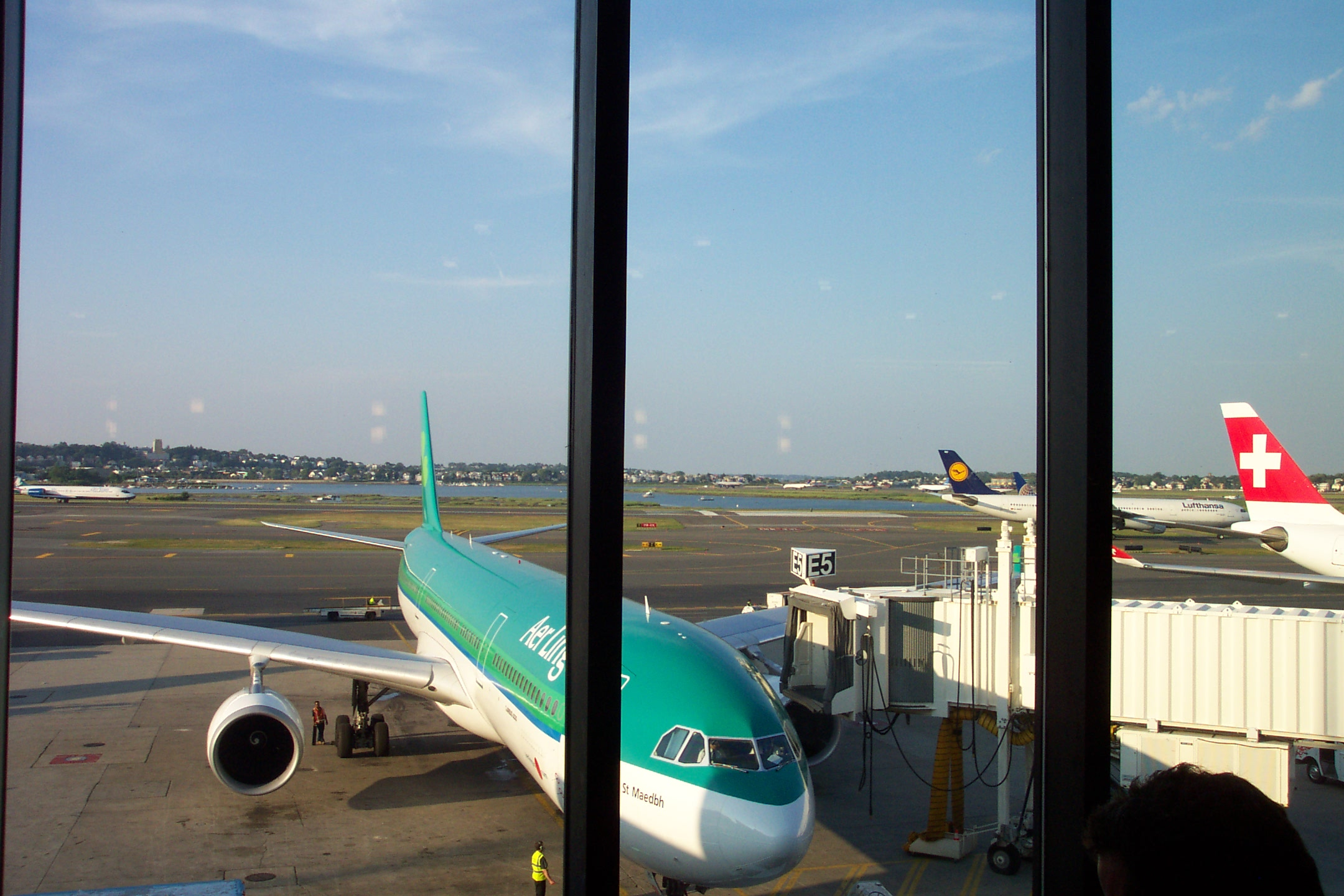 Boston's Logan International Airport from the airside lounge of Terminal E, illustrating how the airport is largely surrounded by water. For more information see the Wikipedia article Logan International Airport.